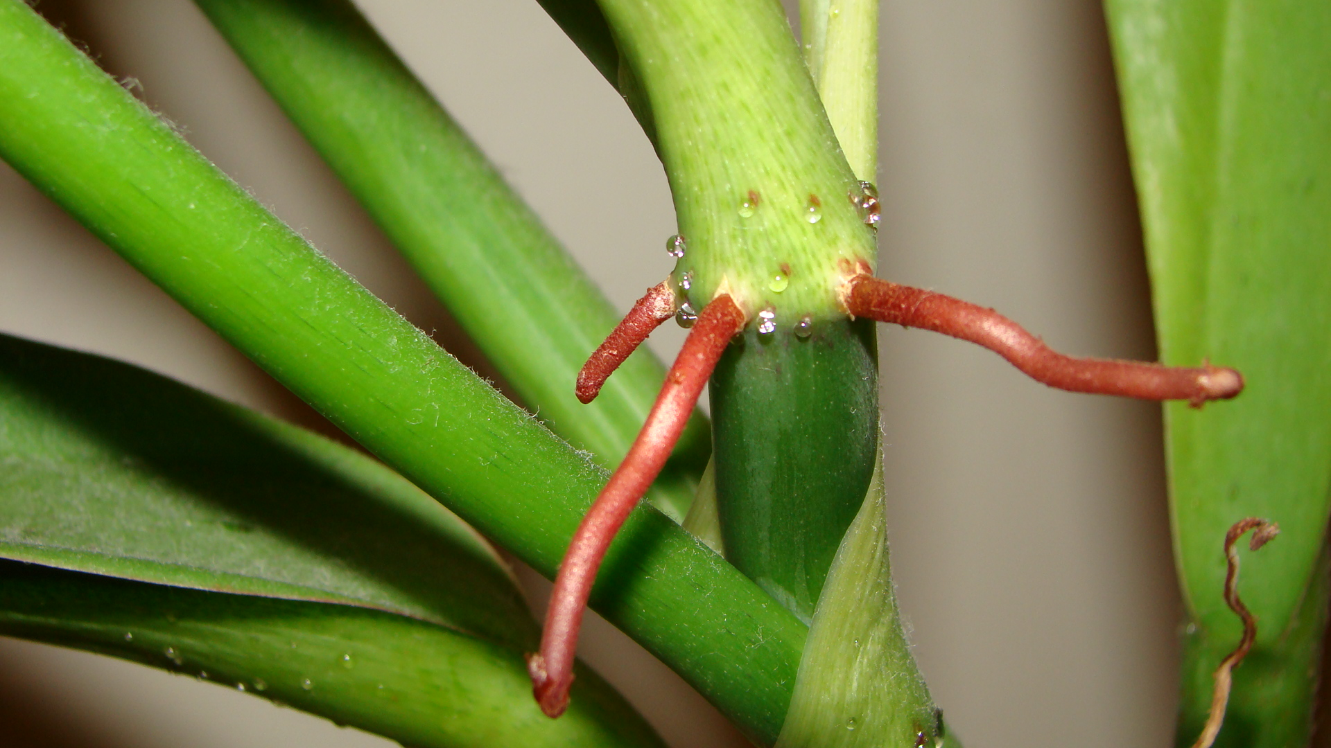 A picture of the aerial roots of Philodendron crassinervium.